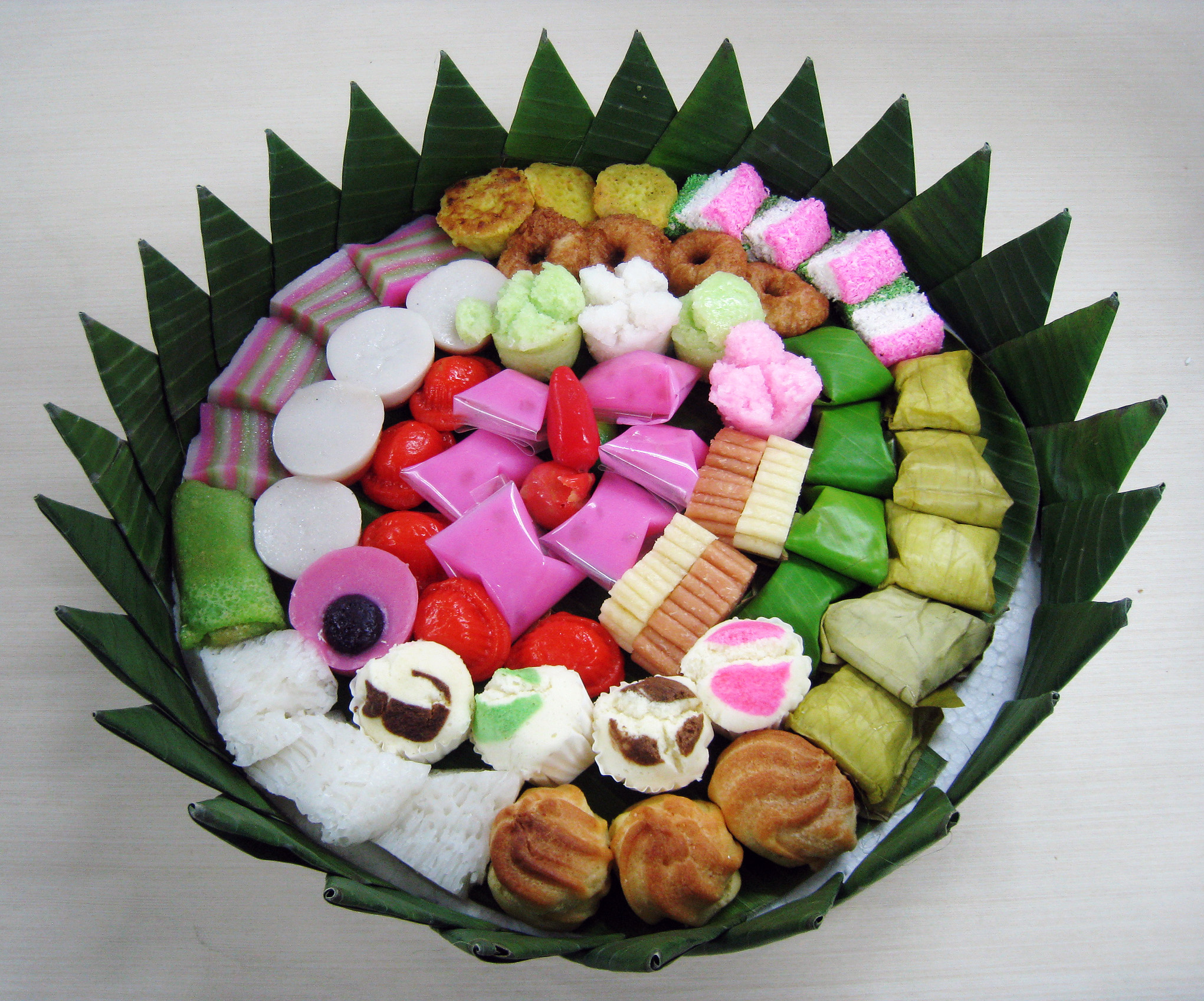 Jajan Pasar (Indonesian for "market munchies"), assorted colorful Indonesian traditional cakes (kue) served during festivities in Jakarta, Indonesia. The delicacies are kue dadar gulung, kue lapis, bika ambon, kue talam, nagasari, kue mangkok, kue ku, kue bugis, kue cucur, getuk lindri, bolu kukus, putu mayang, kue sus, etc.